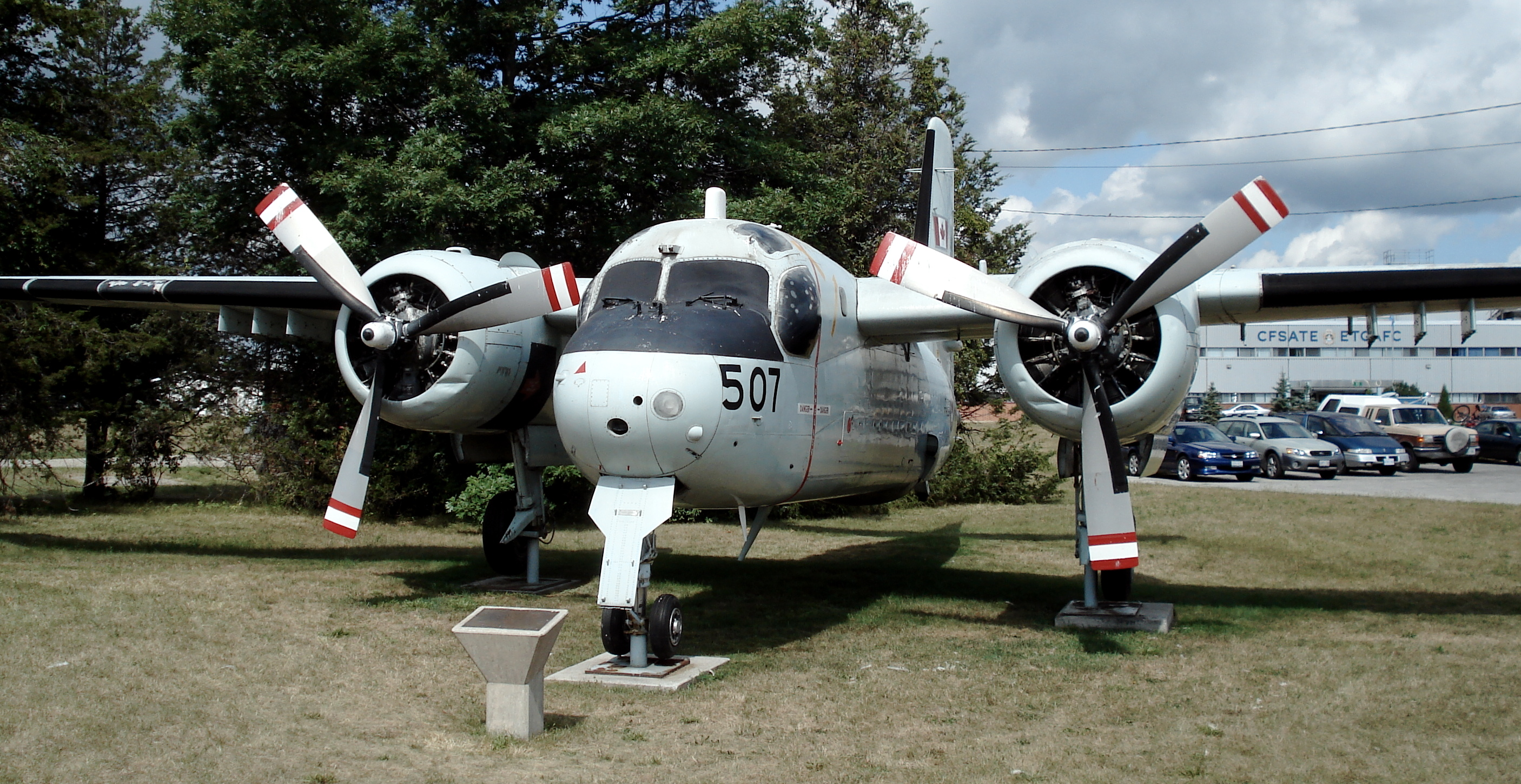 Canadian-made CS2F-2 Grumman Tracker ASW aircraft. This example is displayed on the grounds of CFB Borden (Base Borden Military Museum). Photo taken on August 18, 2006. Source: Photo by me, User:Balcer.